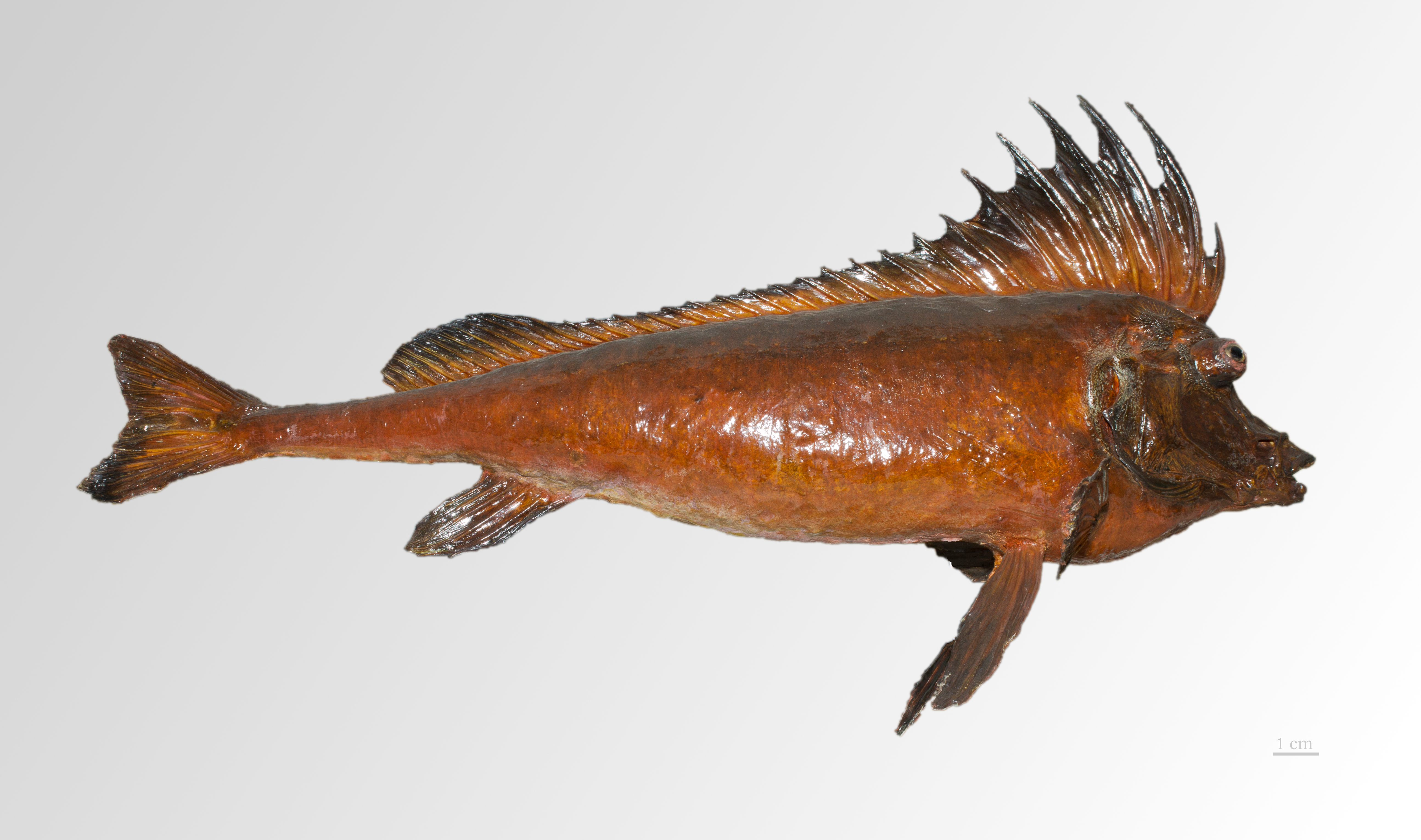 Smooth horsefish (Agriopus torvus or Congiopodus torvus), Cape of Good Hope